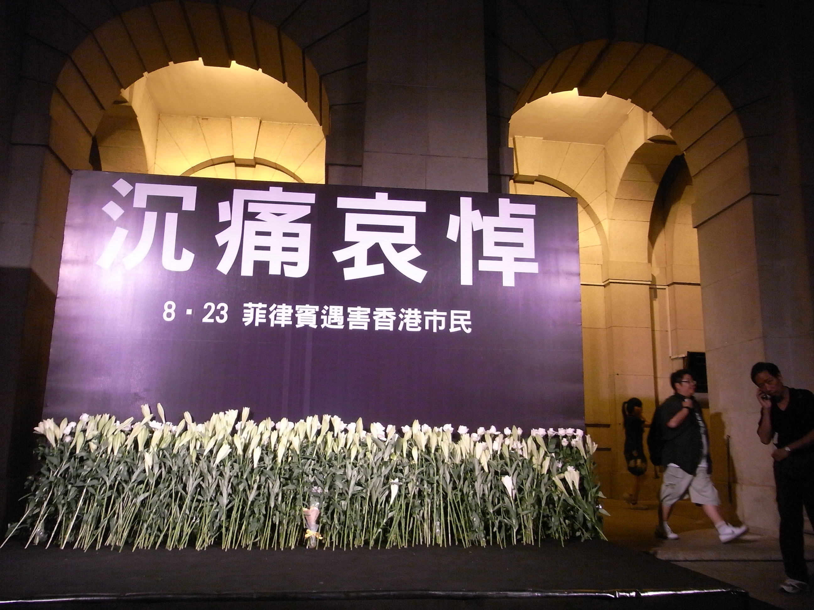 香港2010年8月27日皇后像廣場悼念菲律賓遇害香港市民聚會